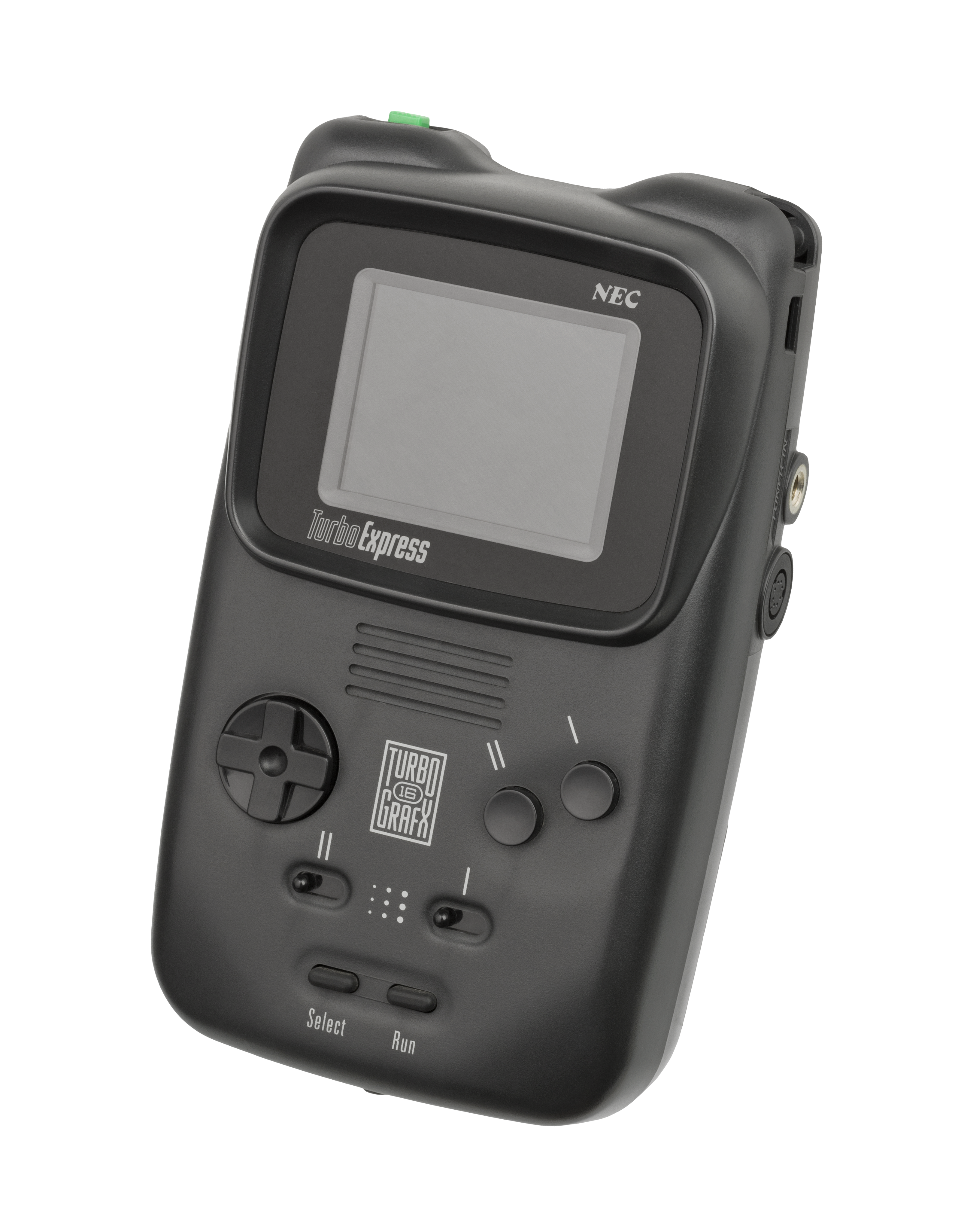 The TurboExpress, a portable version of the TurboGrafx-16 game console, that was released in 1990.